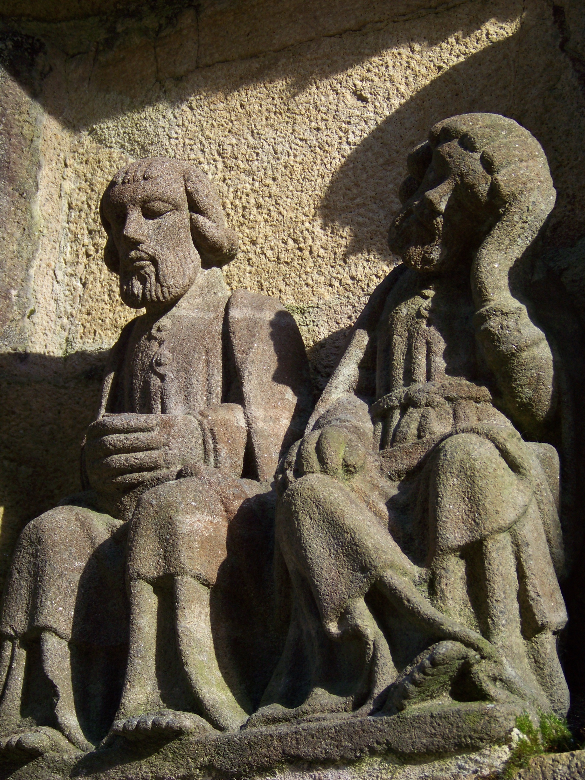 The calvary, Plougastell Daoulaz, Finistere, Brittany .